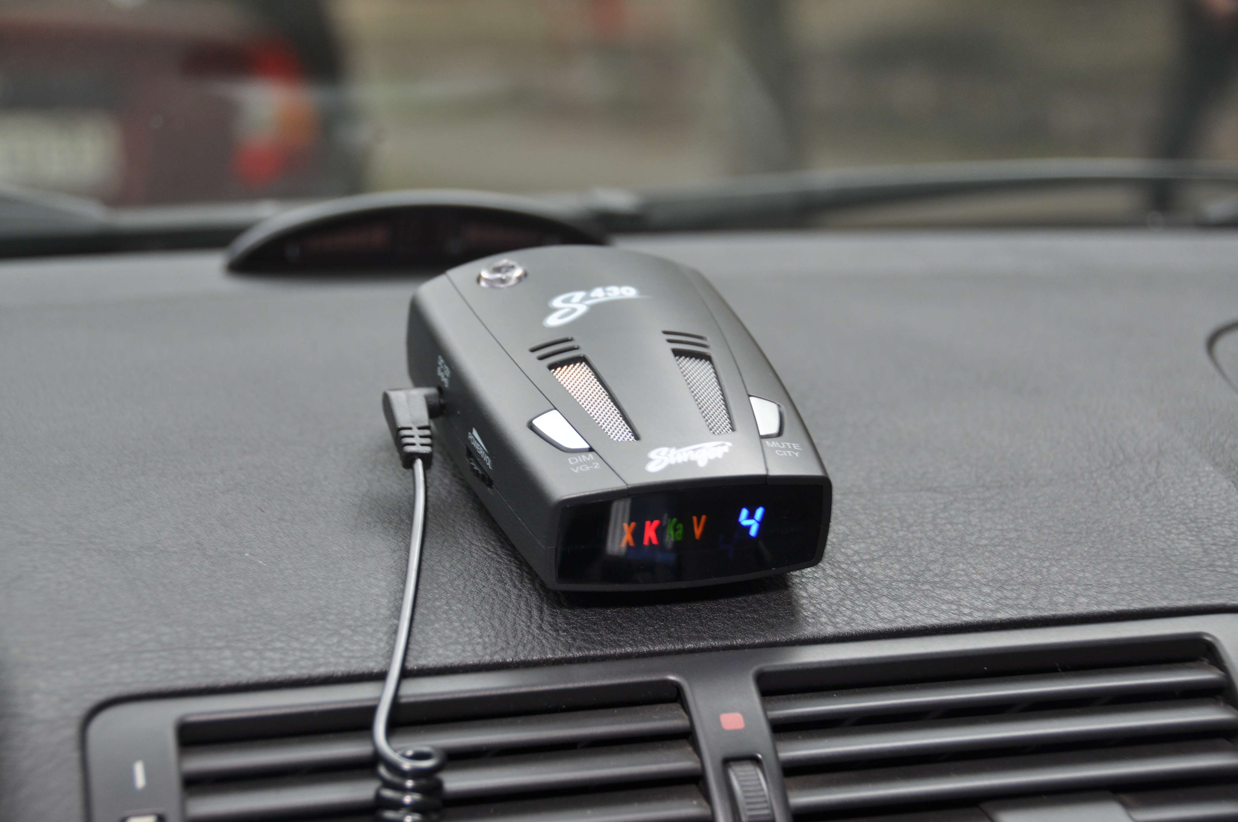 radar-detector Stinger S-430